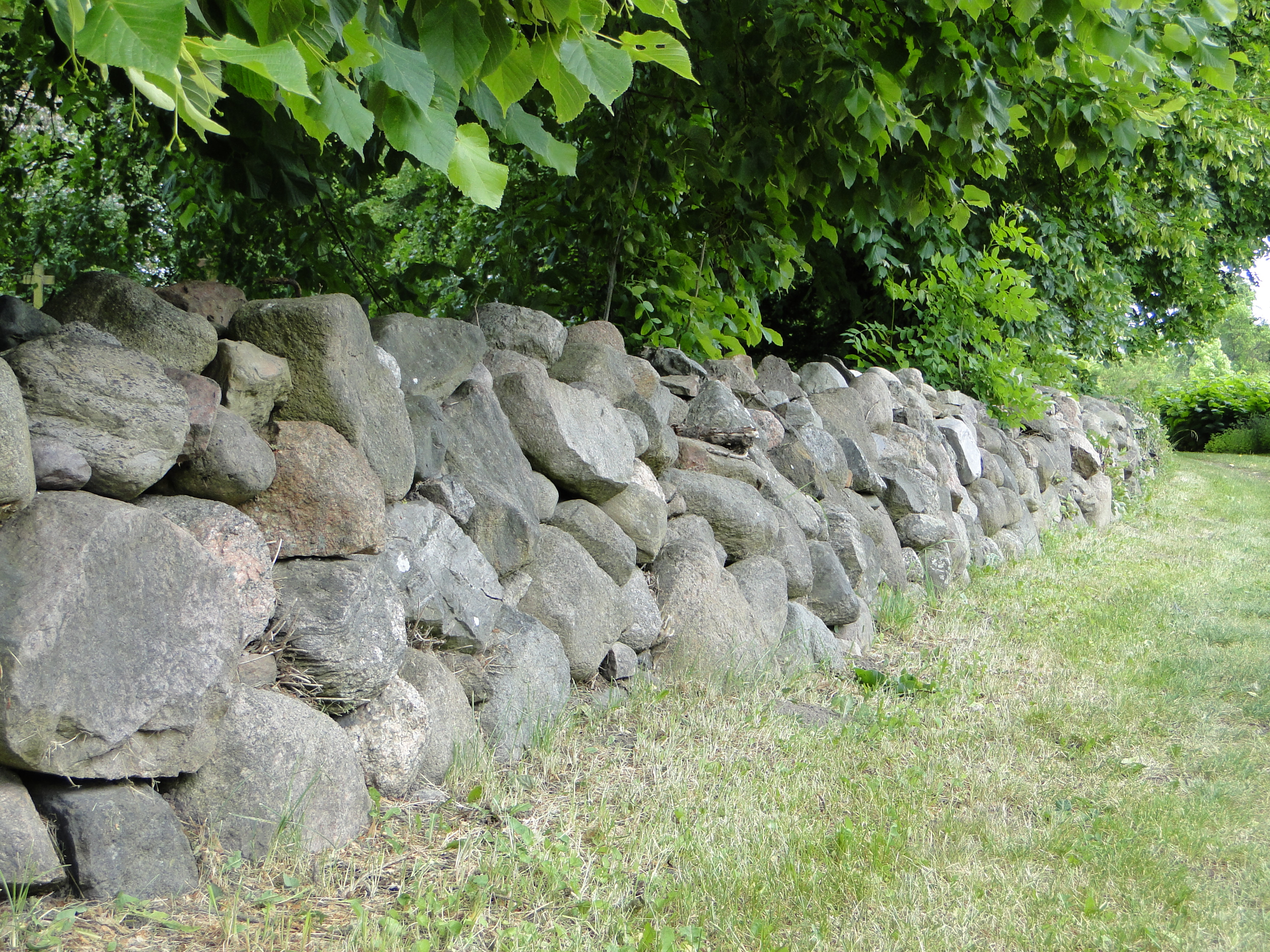 Church in Ruest, district Ludwigslust-Parchim, Mecklenburg-Vorpommern, Germany